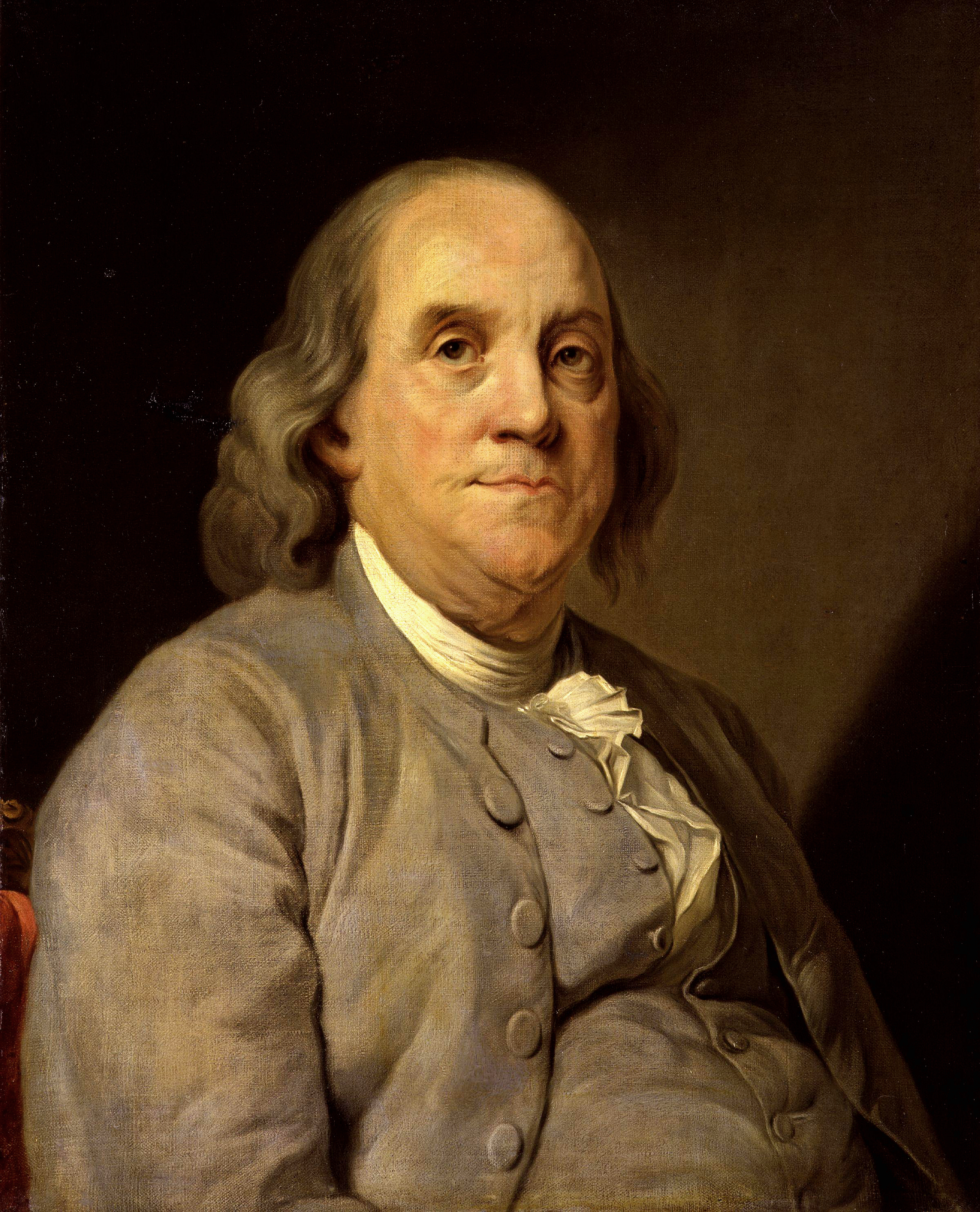 Benjamin Franklin (1706-1790) , North American printer, publisher, writer, scientist, inventor and statesman 79 years old.